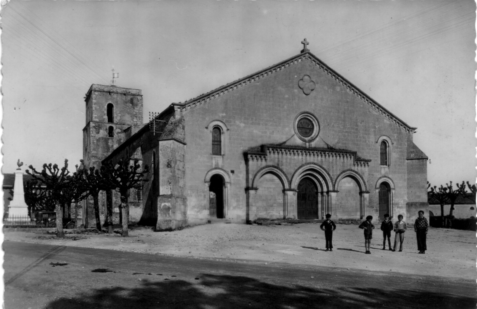 St thomas Church in 1920